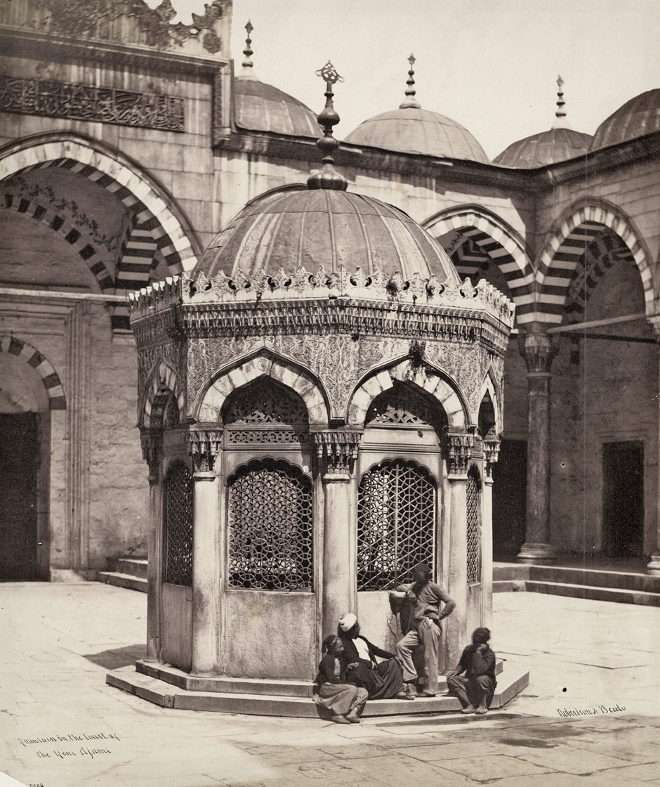 Fountain of the Court of the Yeni Cami, salt print from a glass collodion negative. 30 x 25 cm